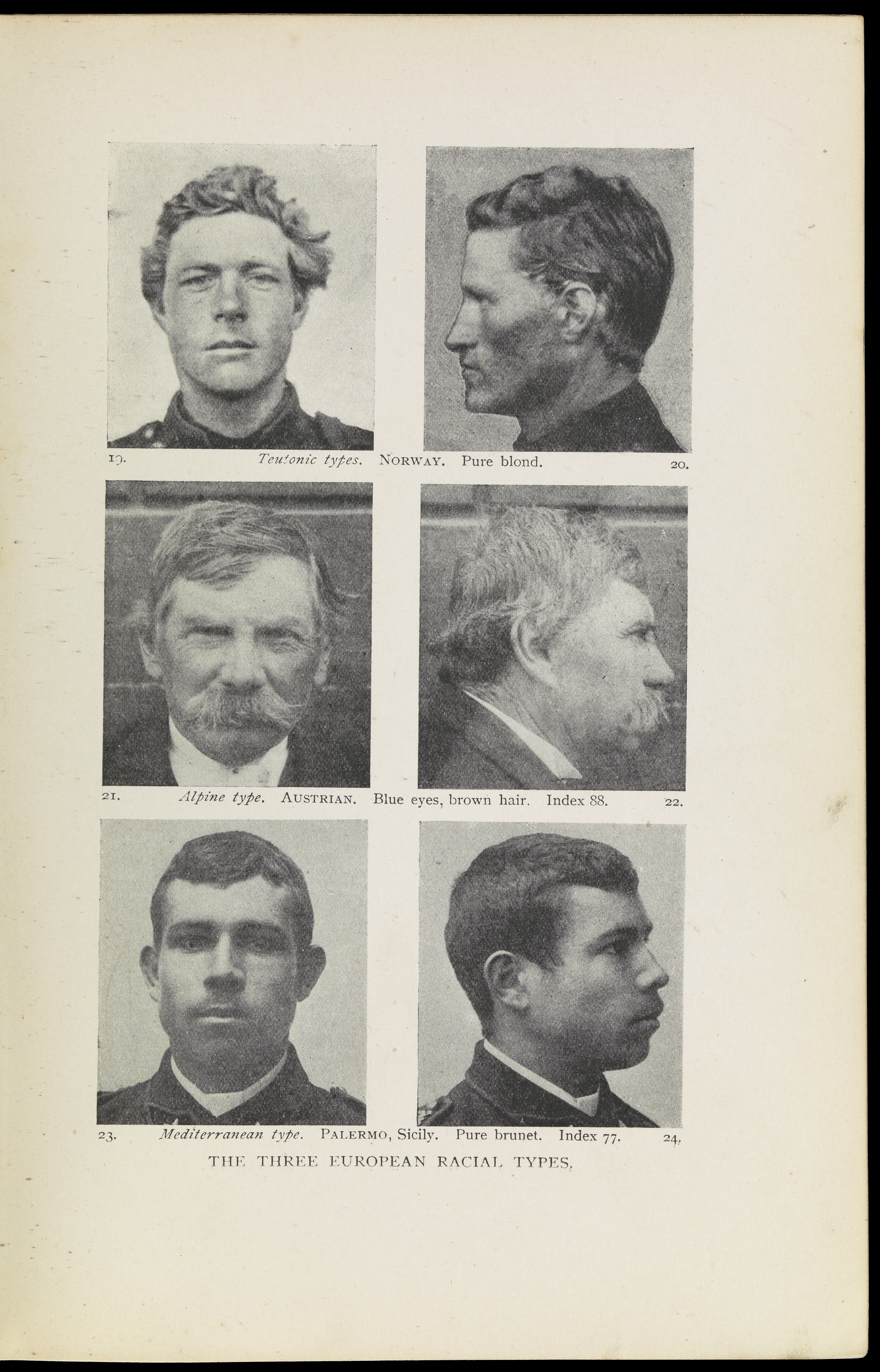 "The races of Europe : a sociological study (Lowell Institute lectures)" by William Z. Ripley. Photographs showing "The Three European Racial Types", between pages 120-121 Rare Books Keywords: Civilization; Ethnology; Cities; Acclimatization